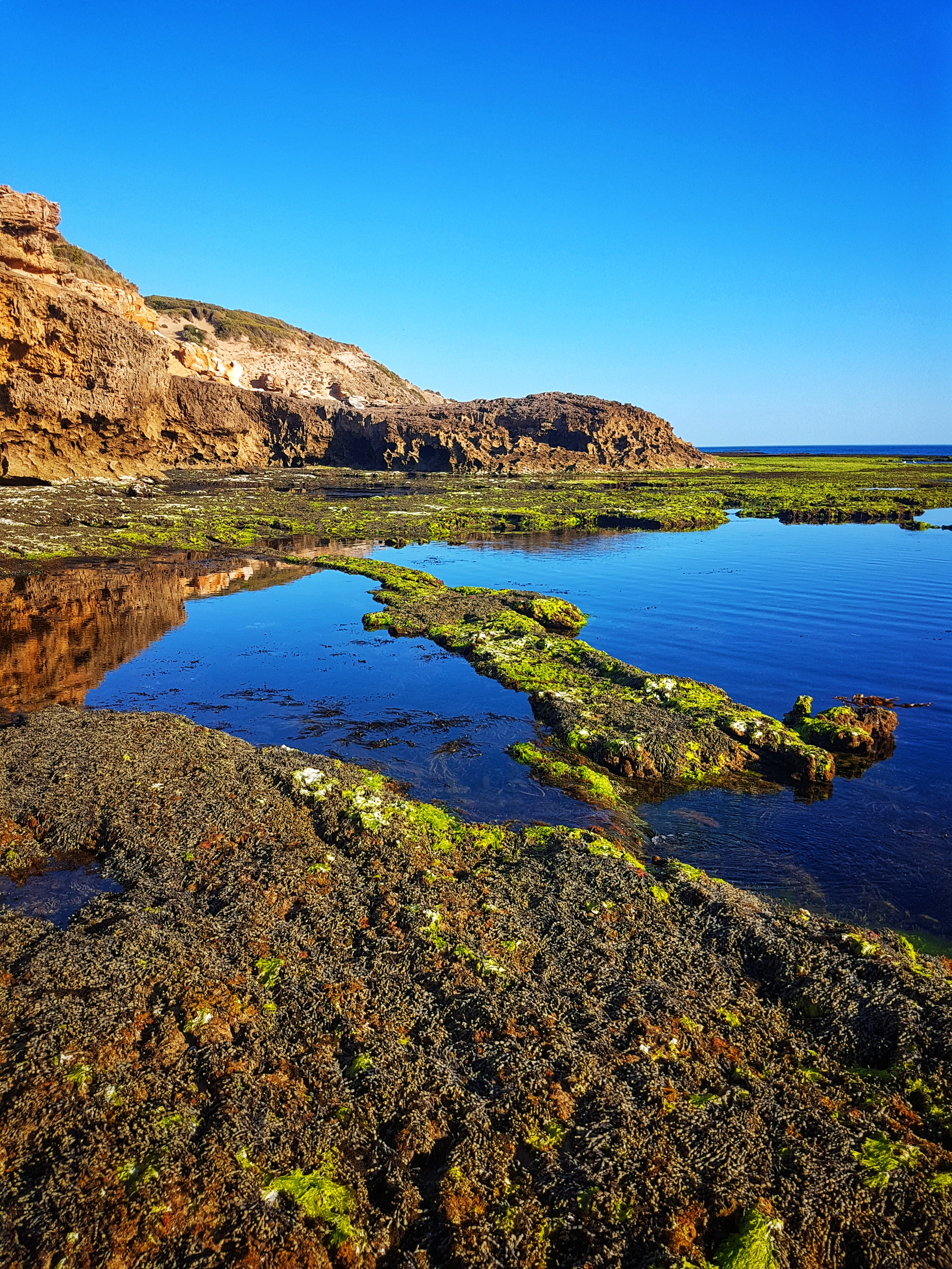 Rock pools and reflections at Sorrento Back Beach in Mornington Peninsula National Park, Victoria, Australia.